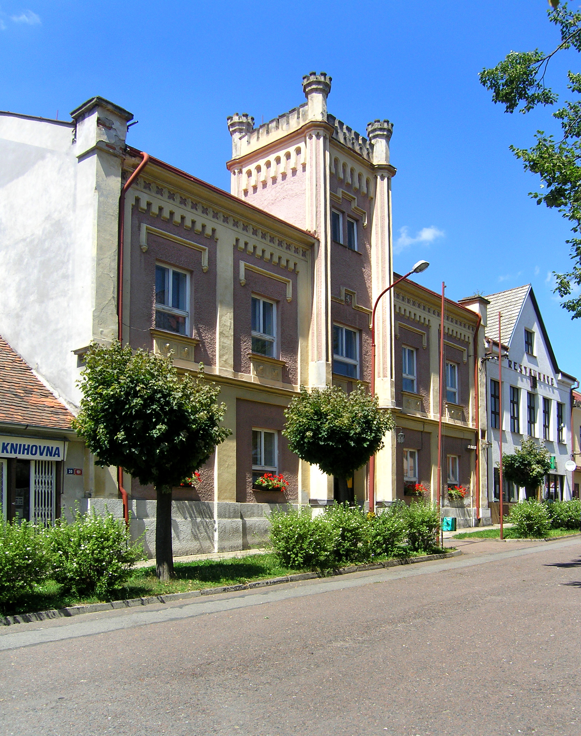 Town hall in Ronov nad Doubravou, Czech Republic